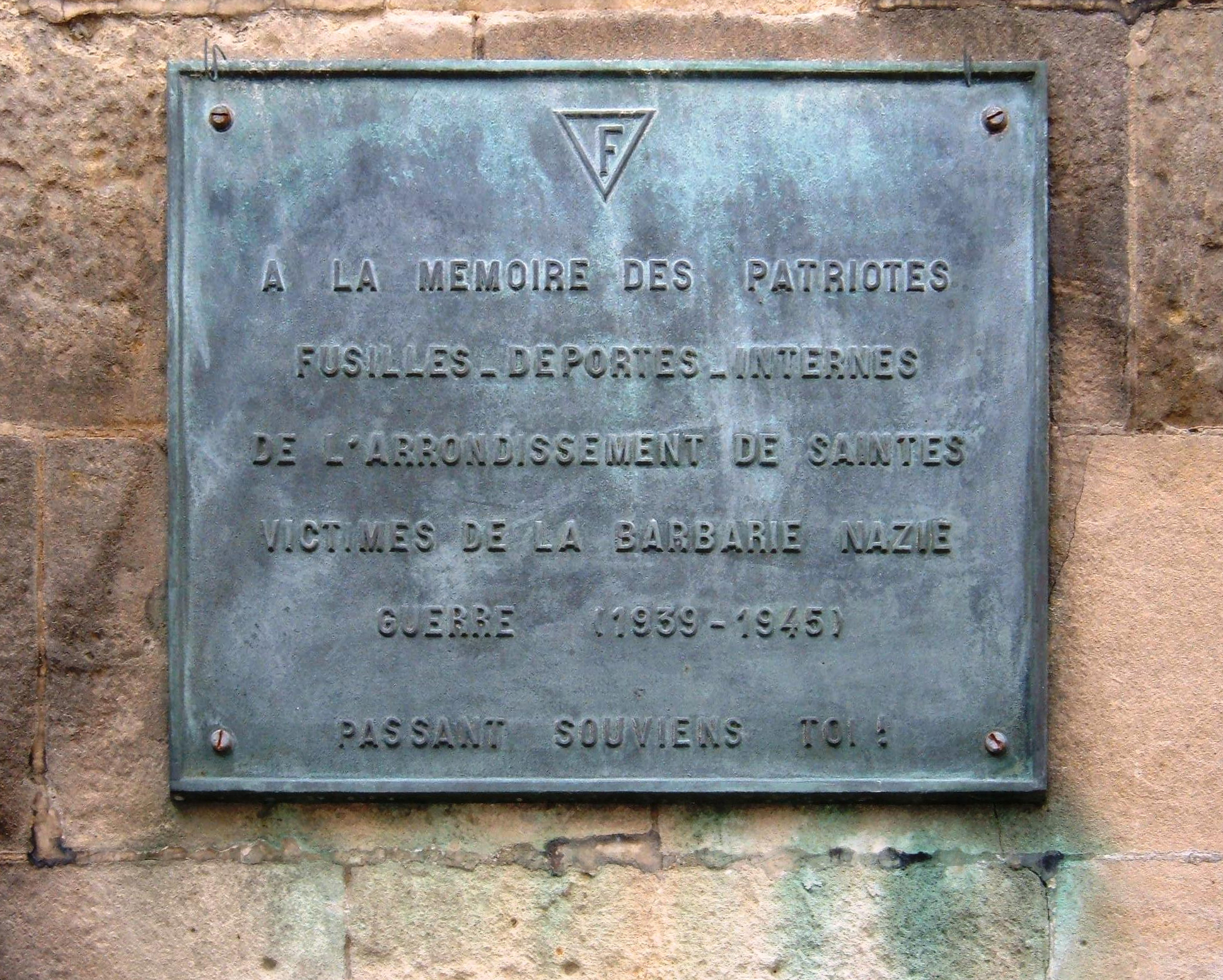 World War II memorial plaque outside Cathédrale Saint-Pierre in Saintes, France, dedicated to French shot, deported, or interned from Saintes during World War II.